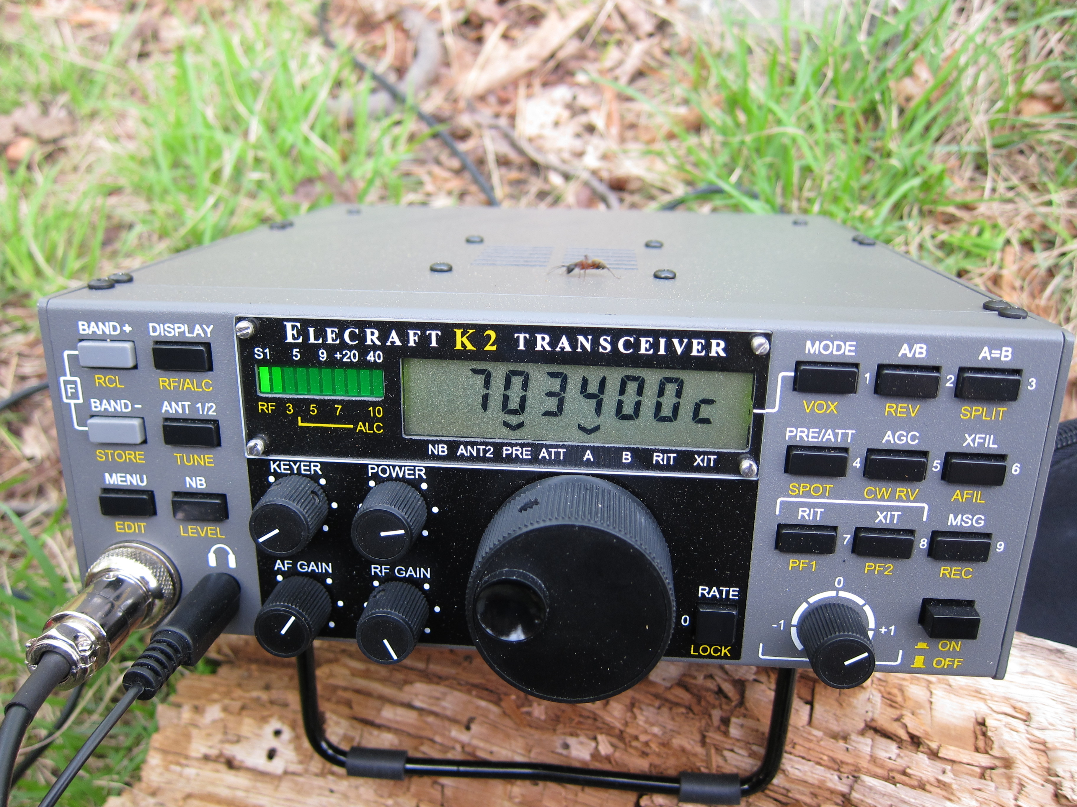 K2, ant